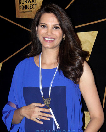 Diana Hayden at the launch The Runway Project, Mumbai's first restaurant with a fashion runway.